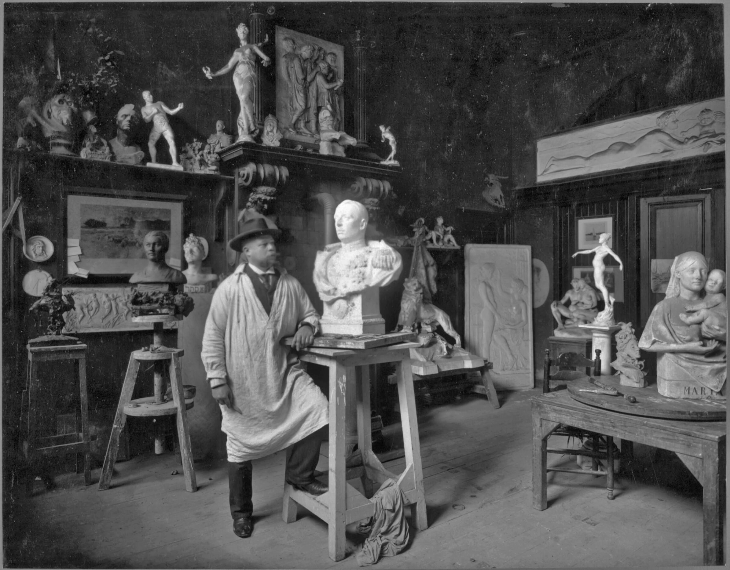 Portrait of the Dutch sculptor Abraham Hesselink (1862-1932)